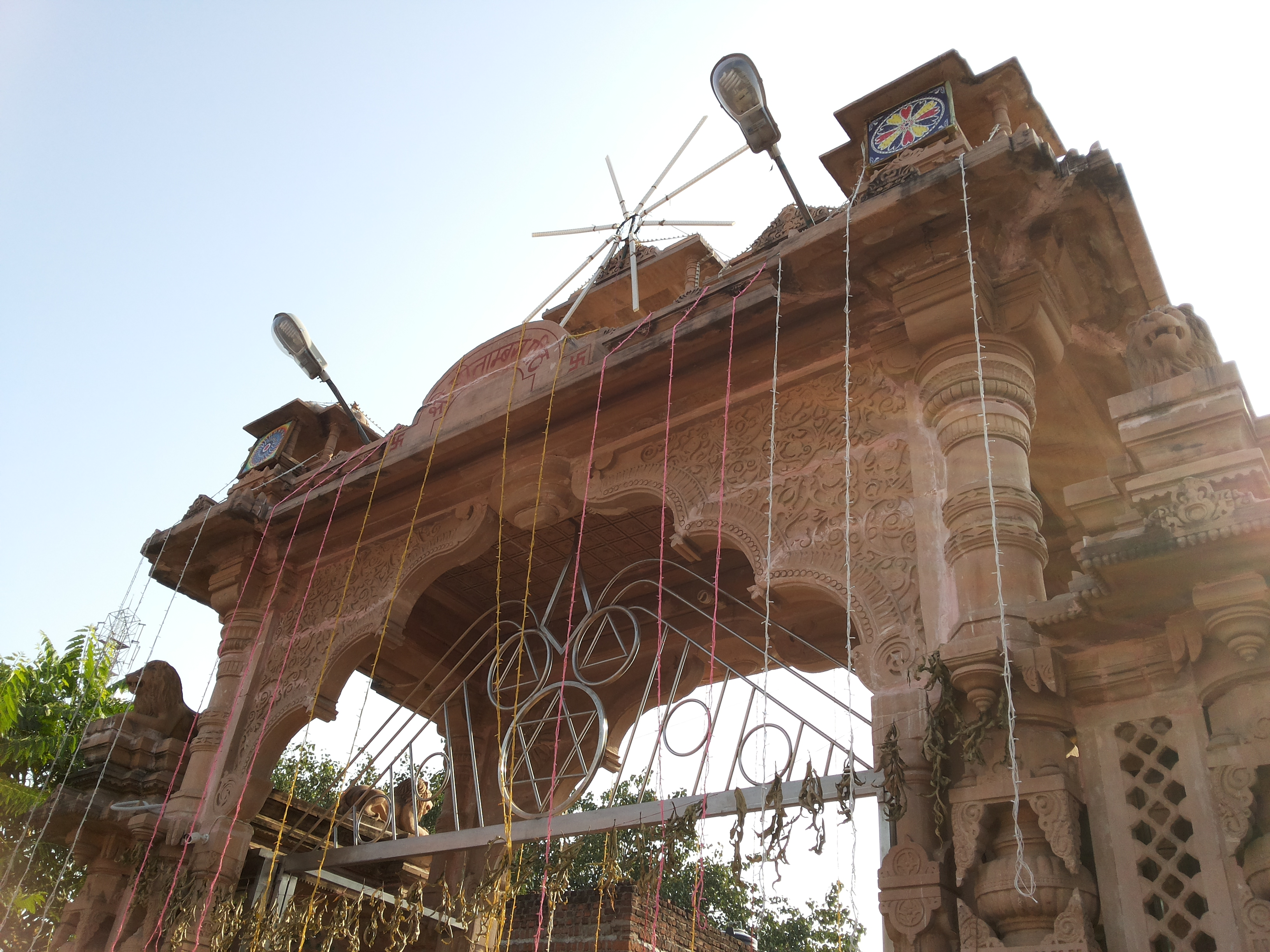 The image is of main gate of Pitambara Peeth complex located in Datia city which houses many temples of different Hindu deities such as Dhumavati, Hanuman and Vankhandeswar Shiva.